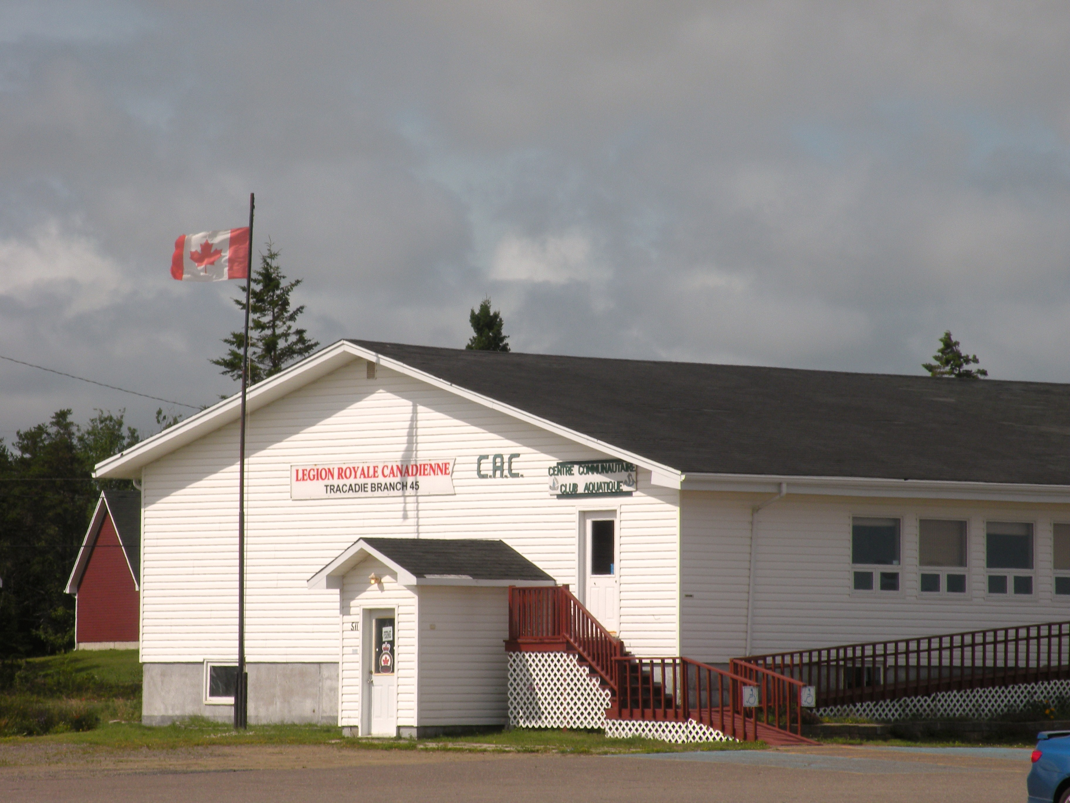 The community centre in Val-Comeau, New Brunswick.